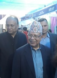 नेपाली: Madhav nepal at chhaya center